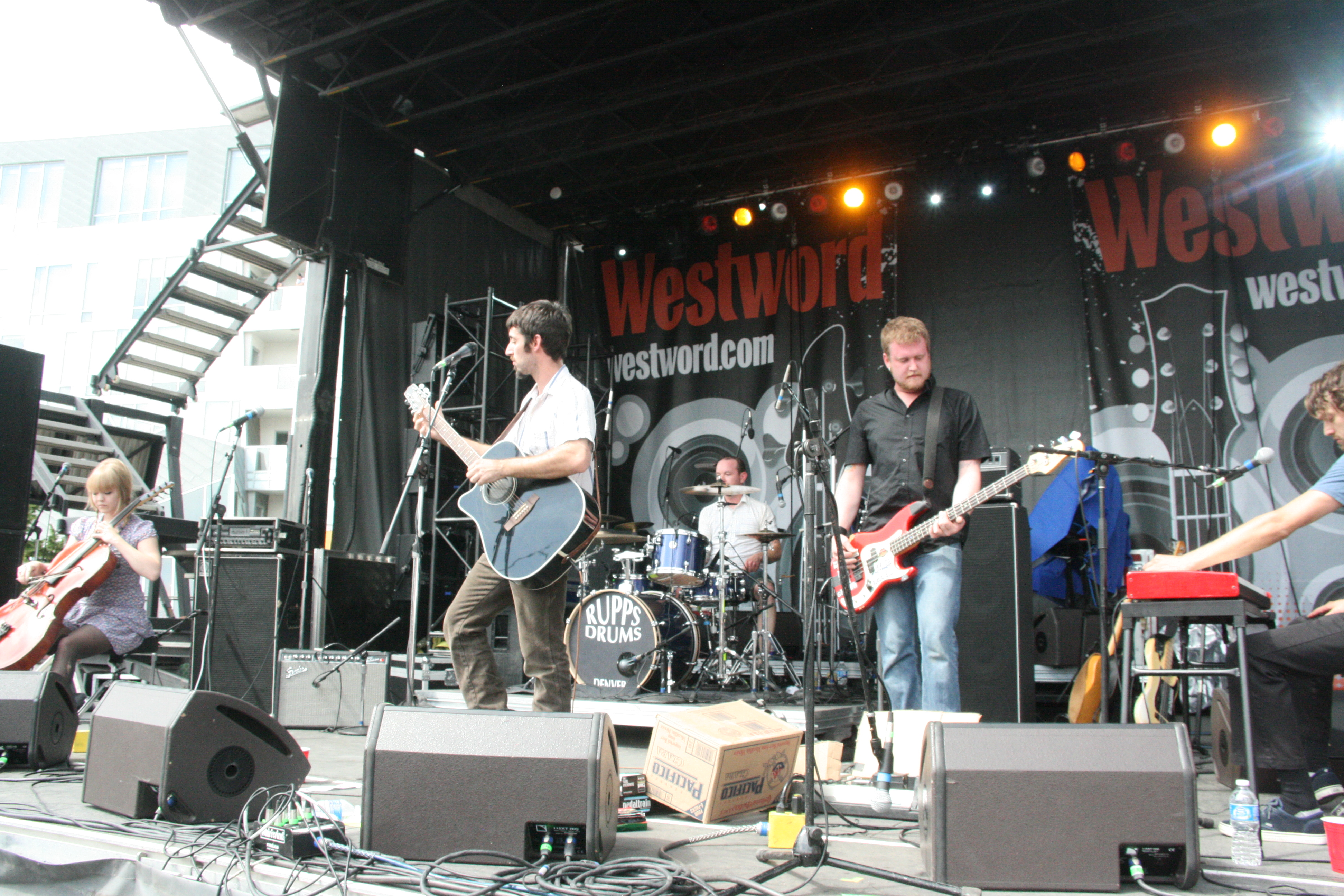 Murder by Death ::: Main Stage @ Westword Music Showcase ::: 06.18.11